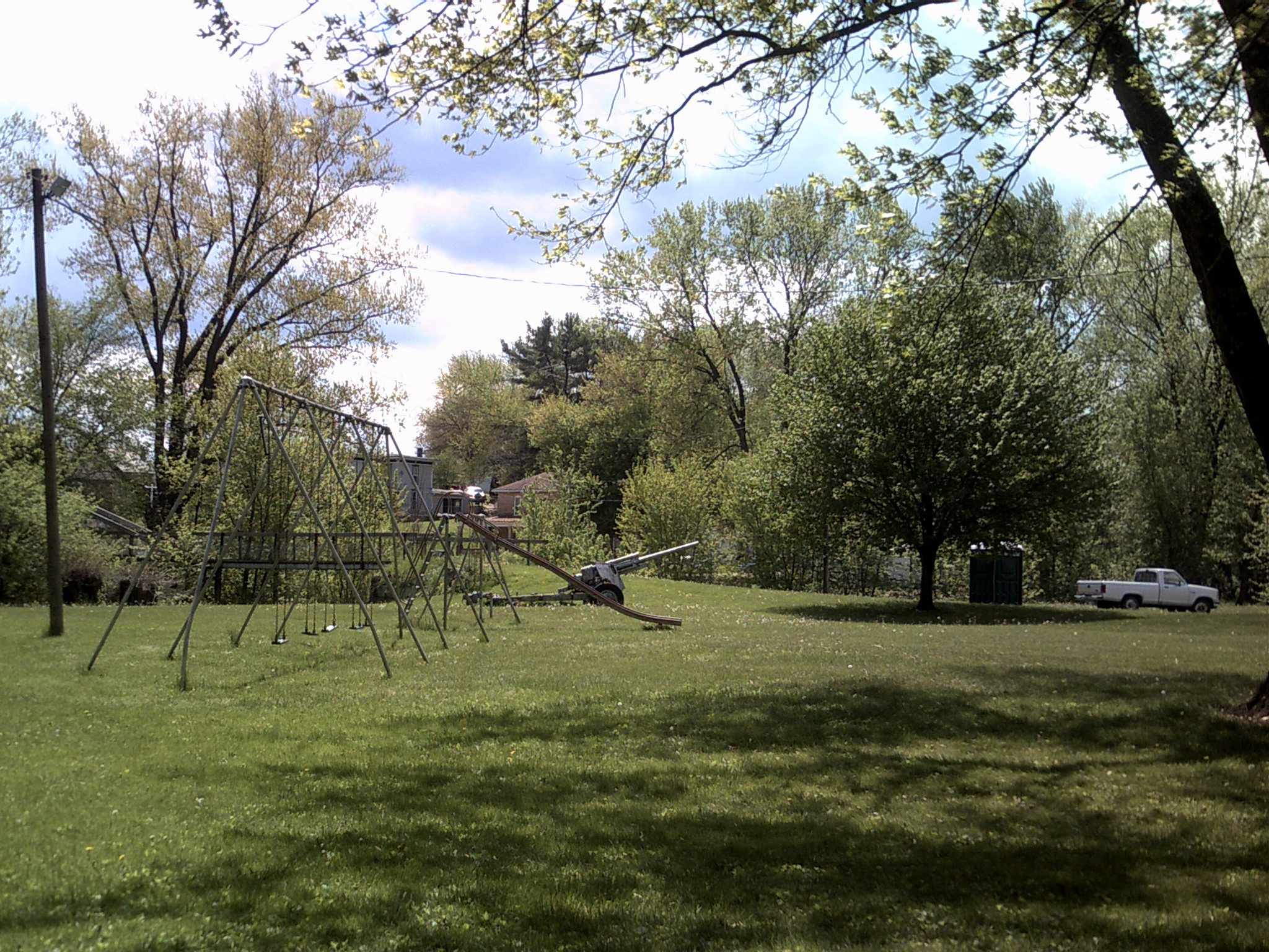 Sherrodsville, Ohio park next to Conotton Creek.